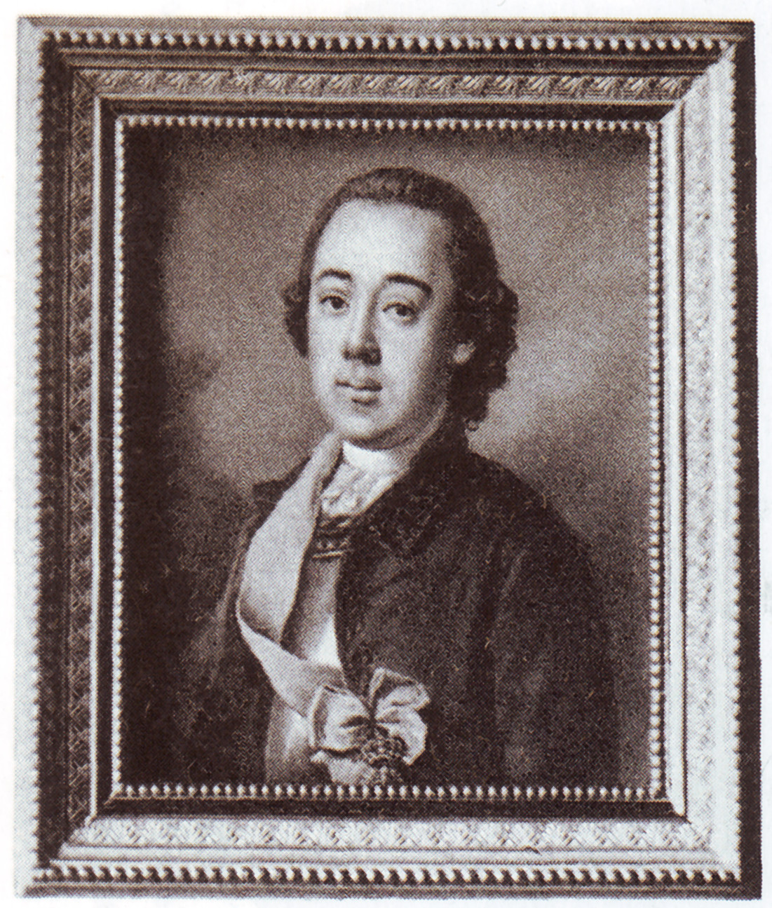 Portrait of Sergei Saltykov (c.1726-1765)